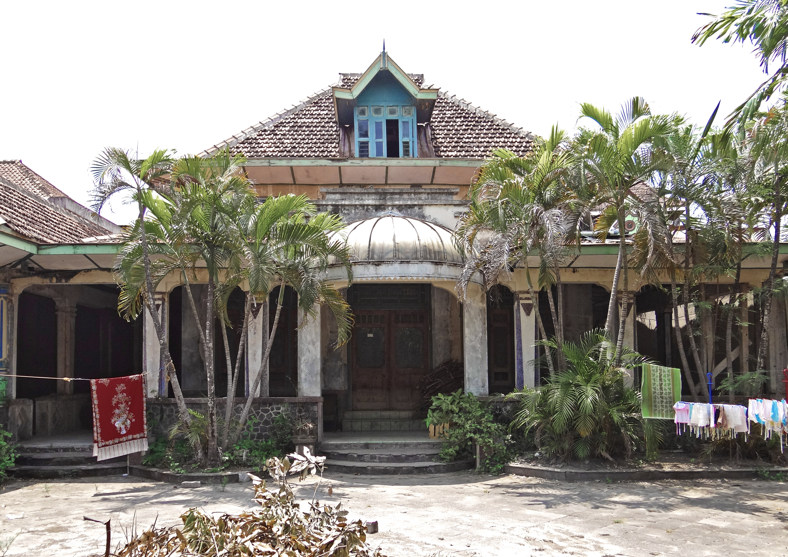 The enclosed pendopo of Omah Tembong.